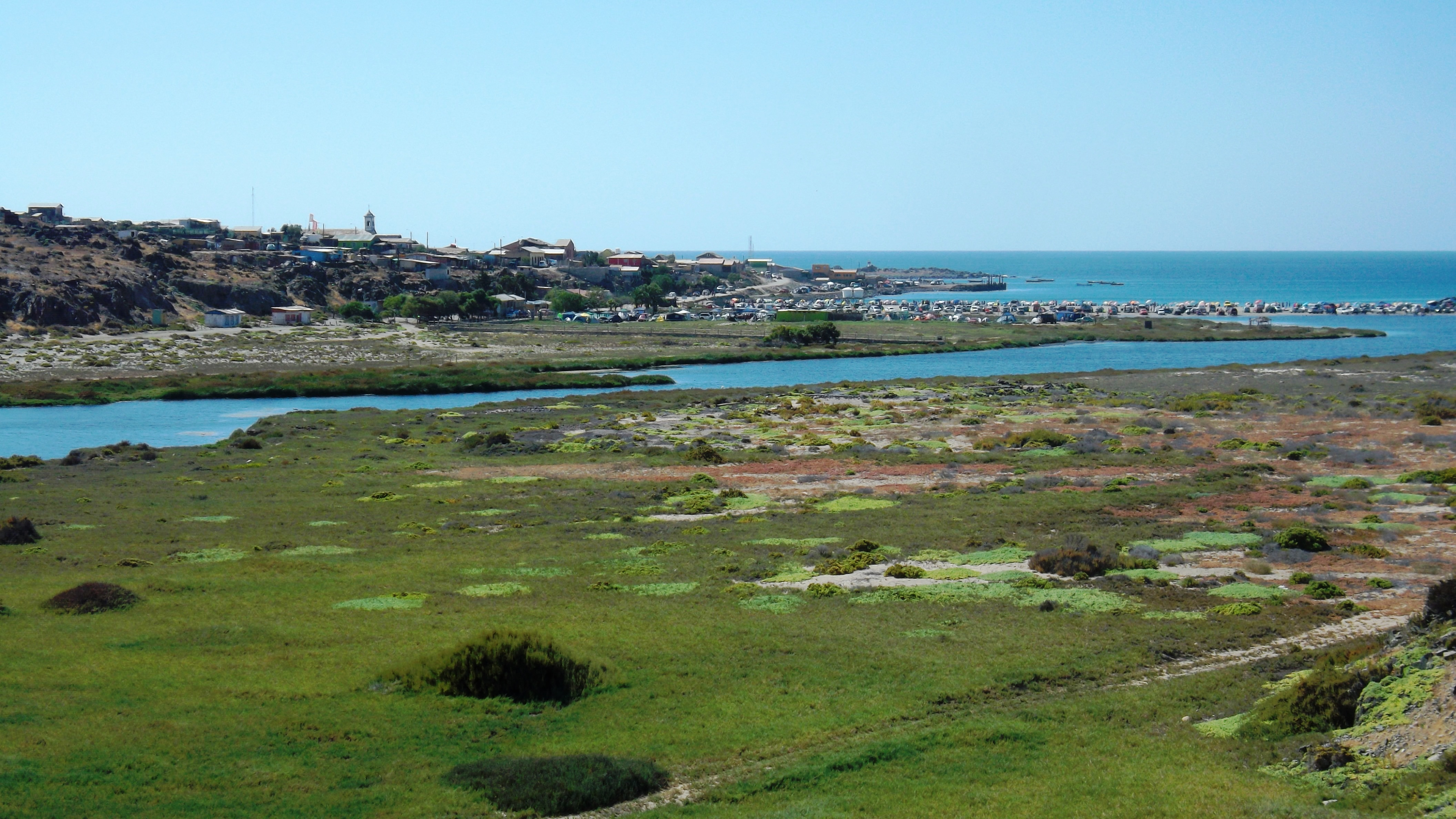 CARRIZAL BAJO - HUMEDAL